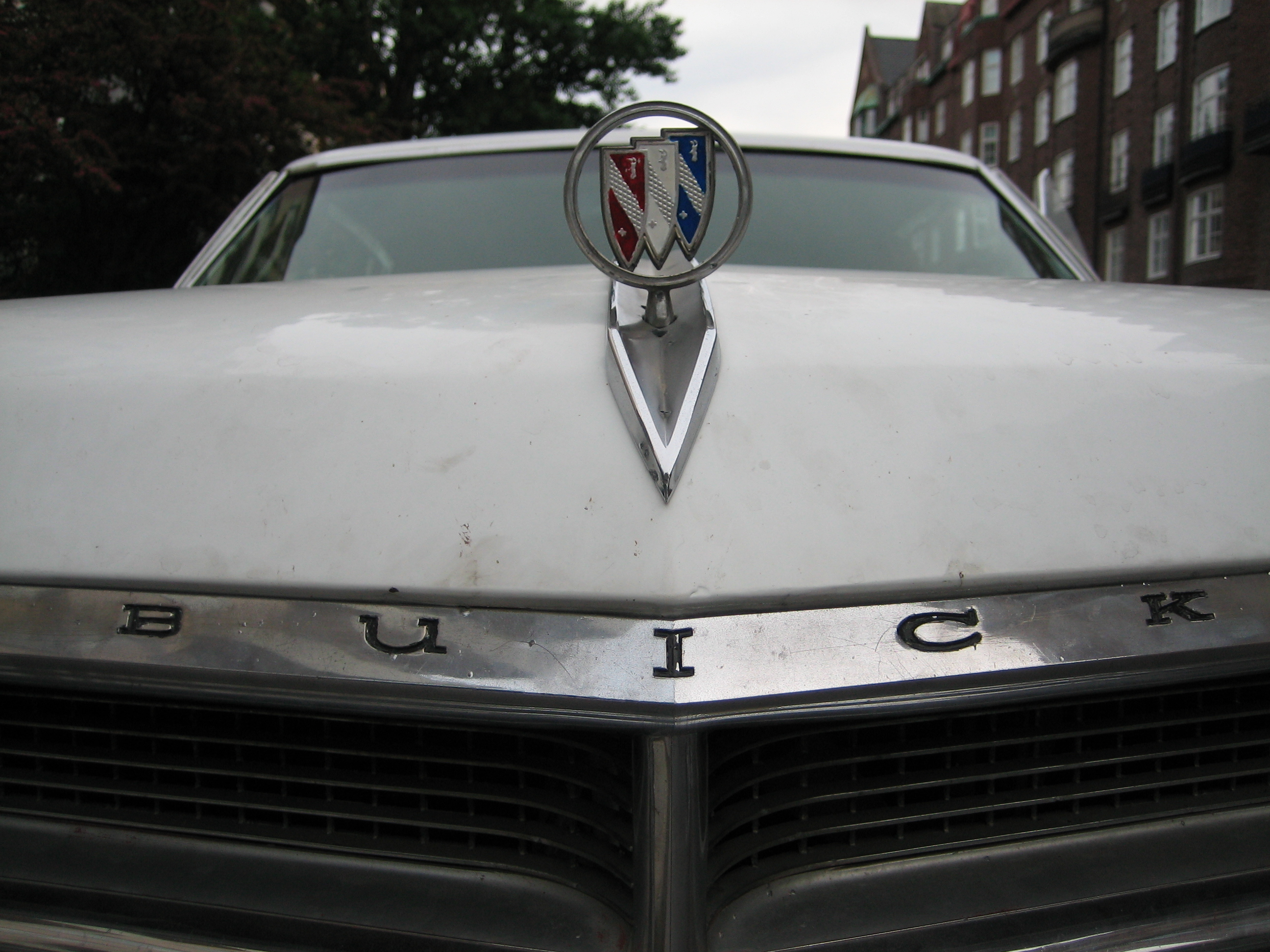 The Buick trishield logo on a Buick Electra 225. Photo taken in Stockholm, Sweden.